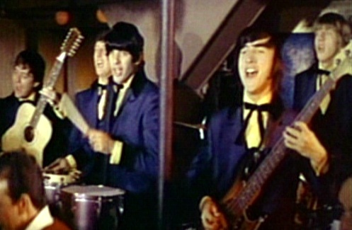 Cropped screenshot of The Beau Brummels from the trailer for the film Village of the Giants (1965). From left: Ron Elliott, Declan Mulligan, Sal Valentino, Ron Meagher, John Petersen.